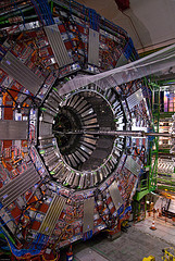 YB-2: muon detectors of the CMS experiment at the CERN LHC